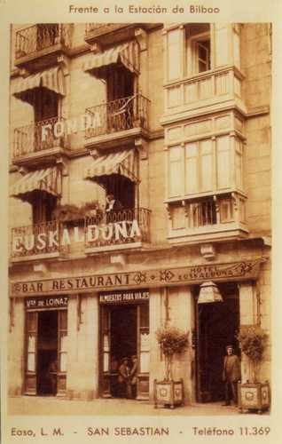 Euskalduna hotel in Amara